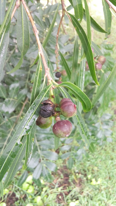 Leaves and friuts of Sapium haematospermum